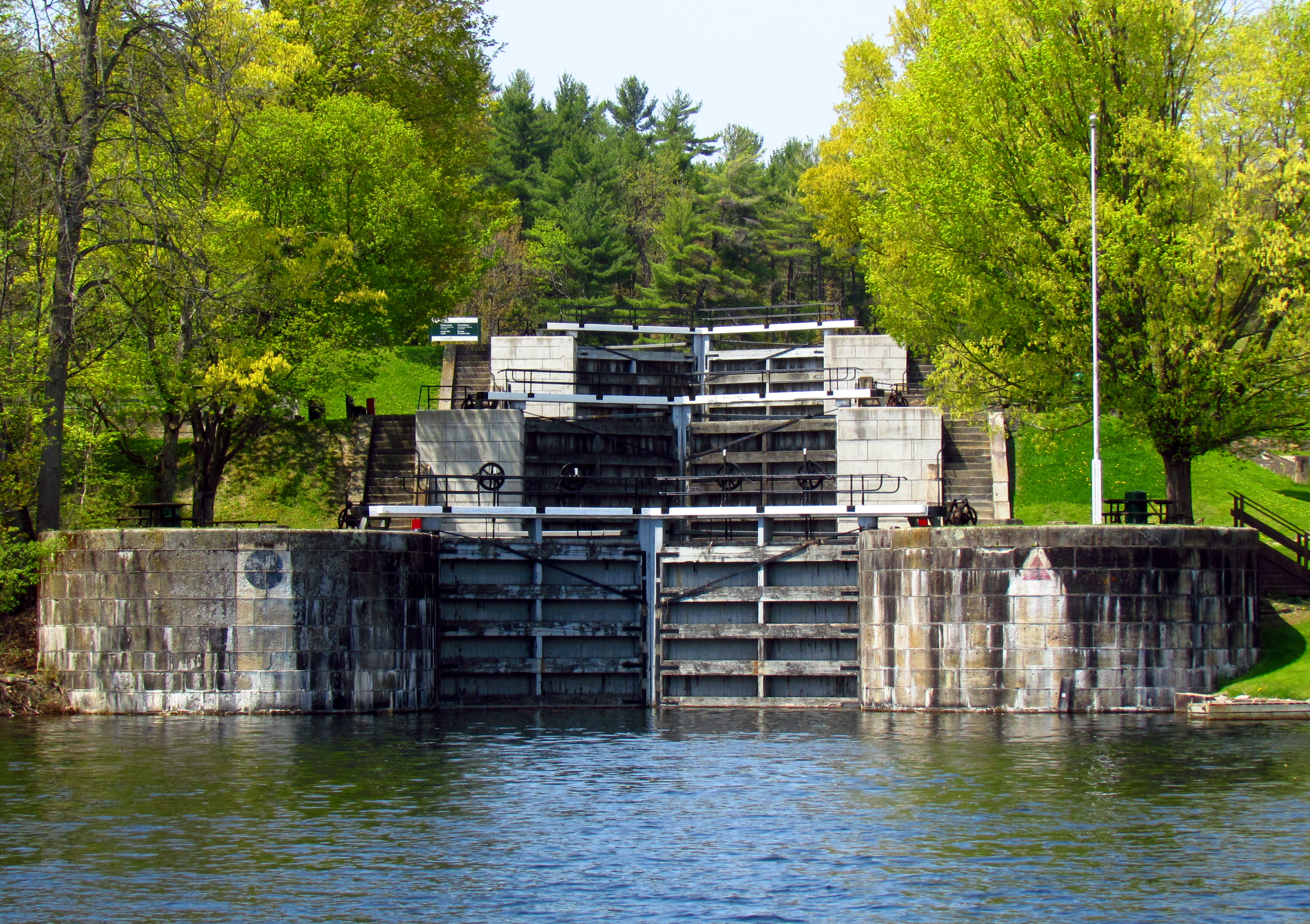 Jones Falls Locks (locks 40-42), Rideau Canal, Ontario, Canada